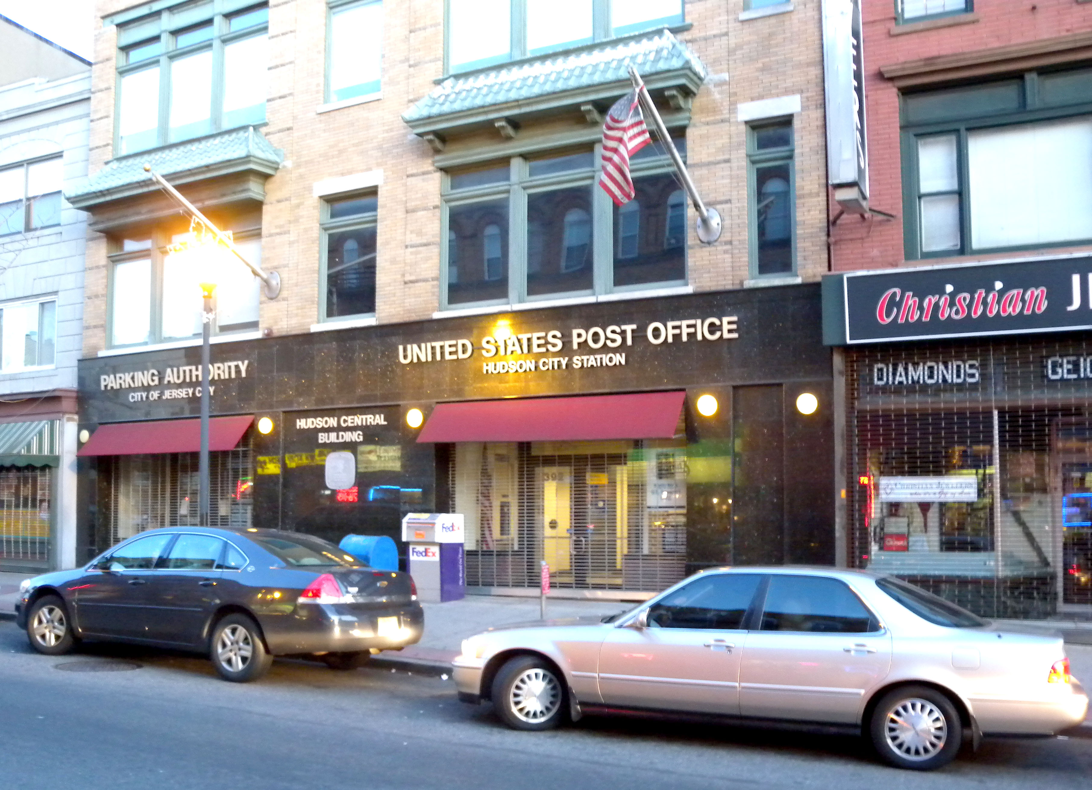 Looking east at Hudson City, New Jersey station of Jersey City Post Office at dusk of a sunny day.